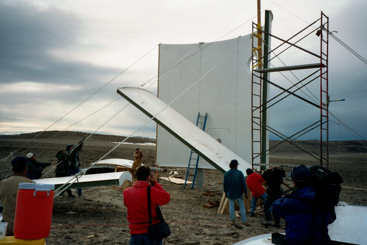 Volunteers use a scaffold to raise the wall panels for the Flashline Mars Arctic Research Station, on Devon Island in the Canadian Arctic.